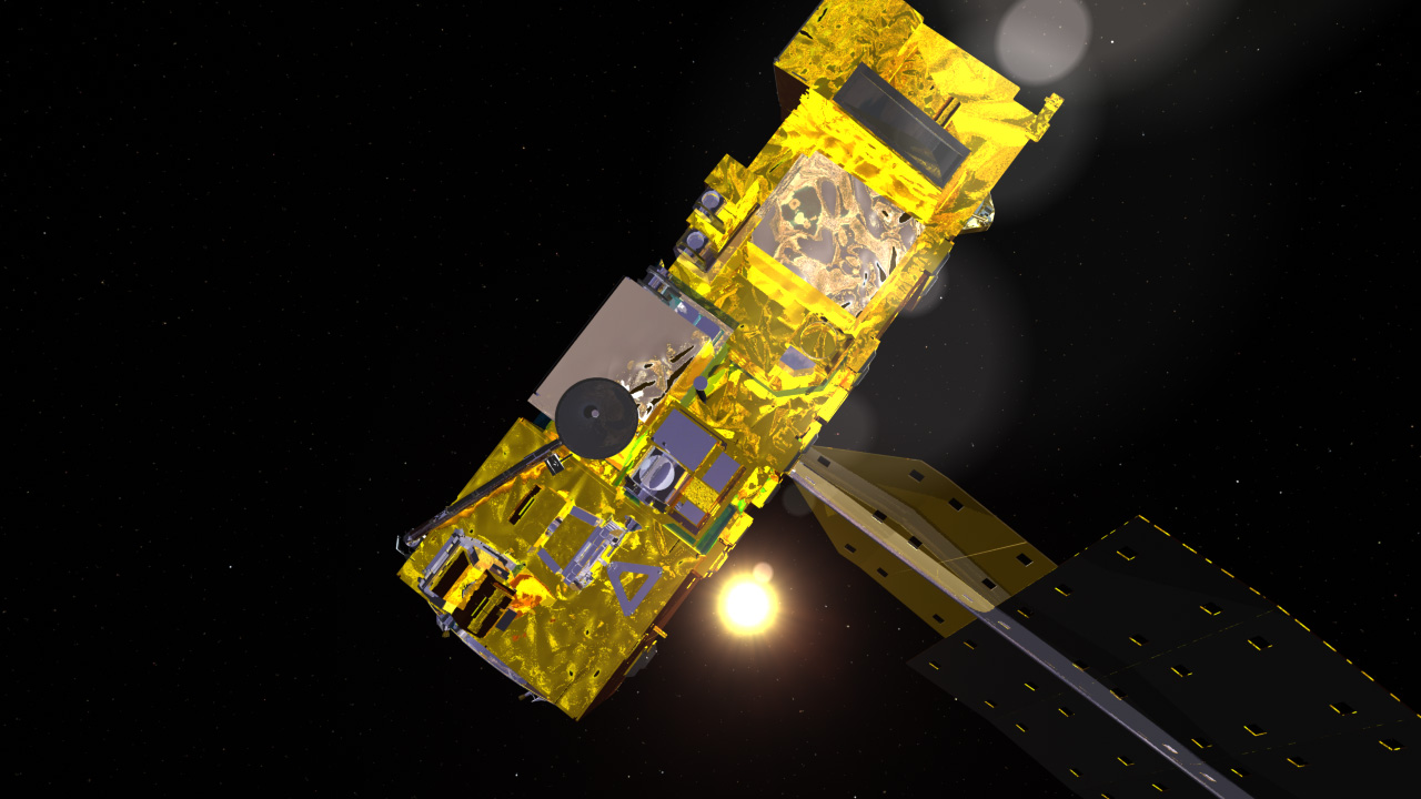 Artist's concept of NASA's Aqua satellite launched May 4, 2002.